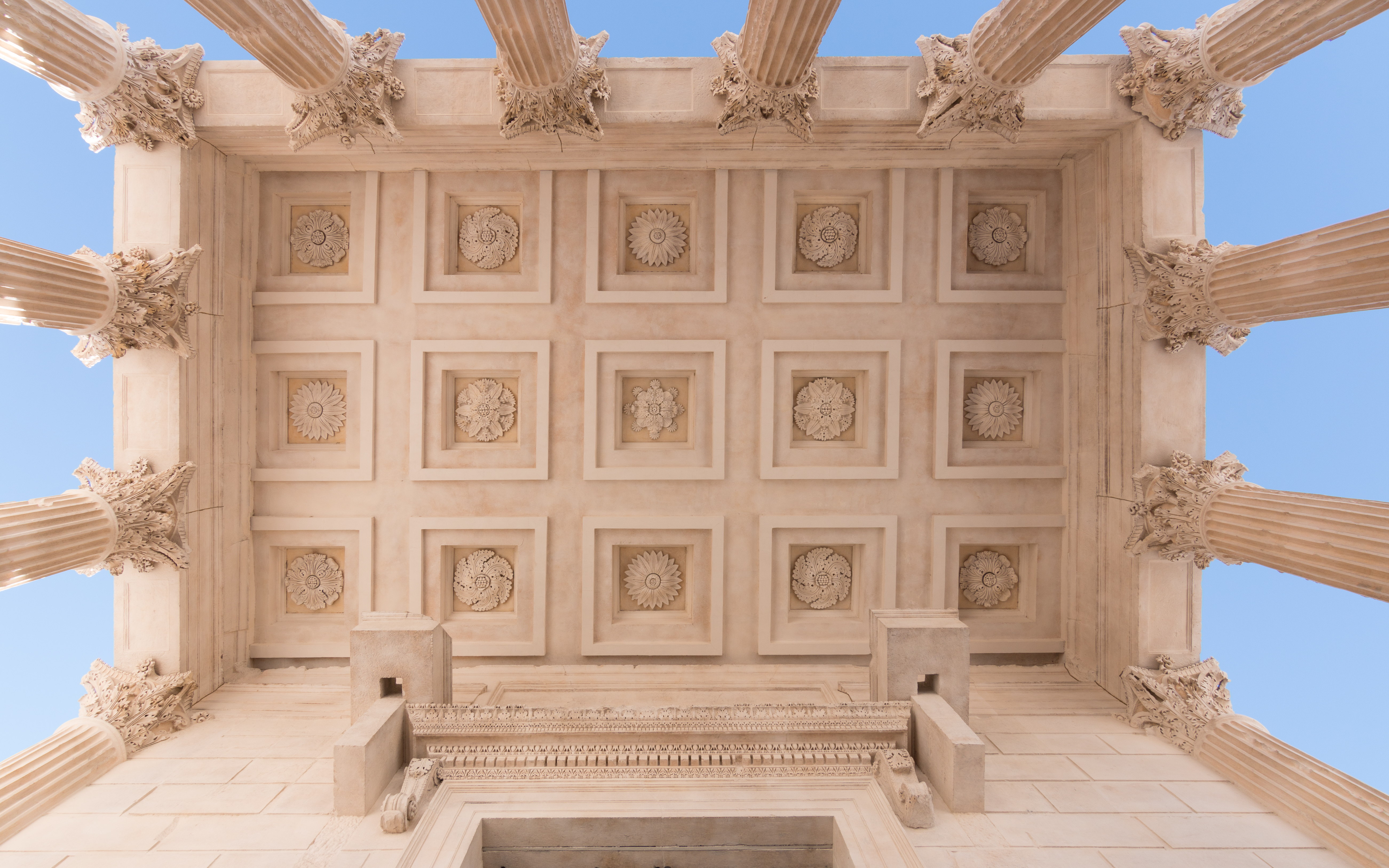 The roman temple called Maison Carrée in Nîmes (Gard, France), Roof of the Portikus